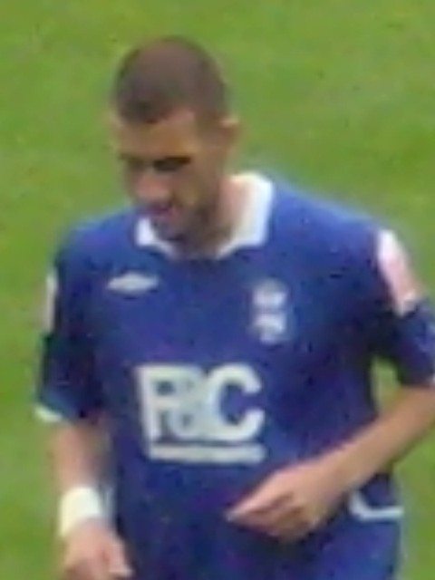 Stuart Parnaby of Birmingham City F.C. warms up before the Championship match at home to Sheffield United F.C.